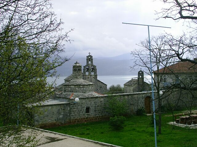 Dobrićevo monastery, Bosnia and Herzegovina